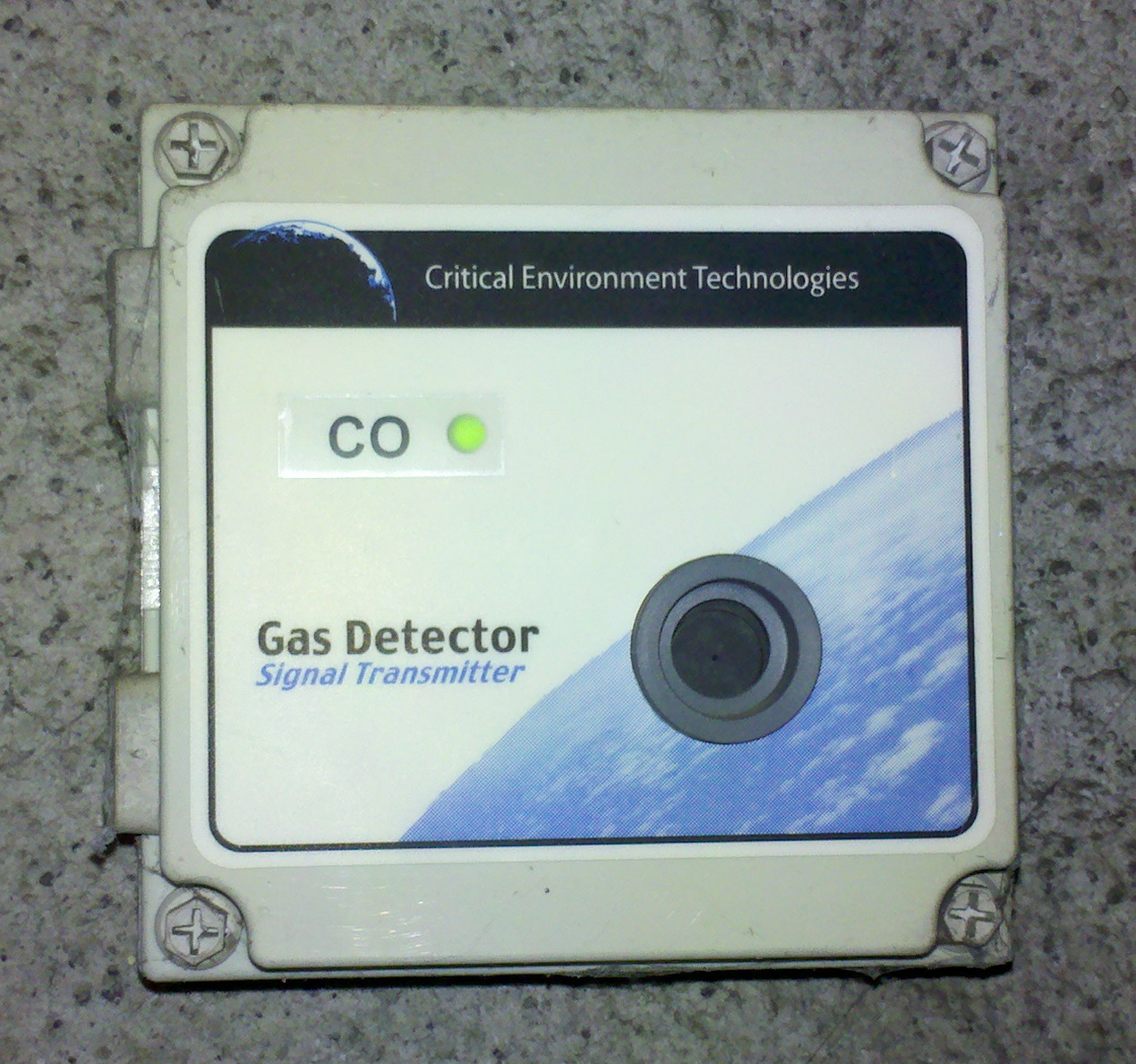 Wall-mounted carbon monoxide detector from the Critical Environment Technologies